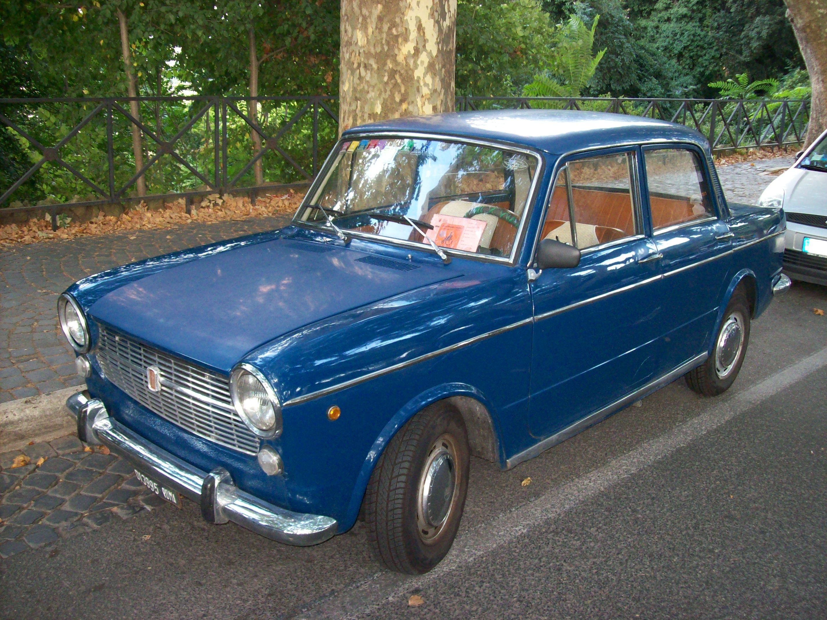 Fiat 1100 R (1967) photographed at Janiculum Hill, Rome